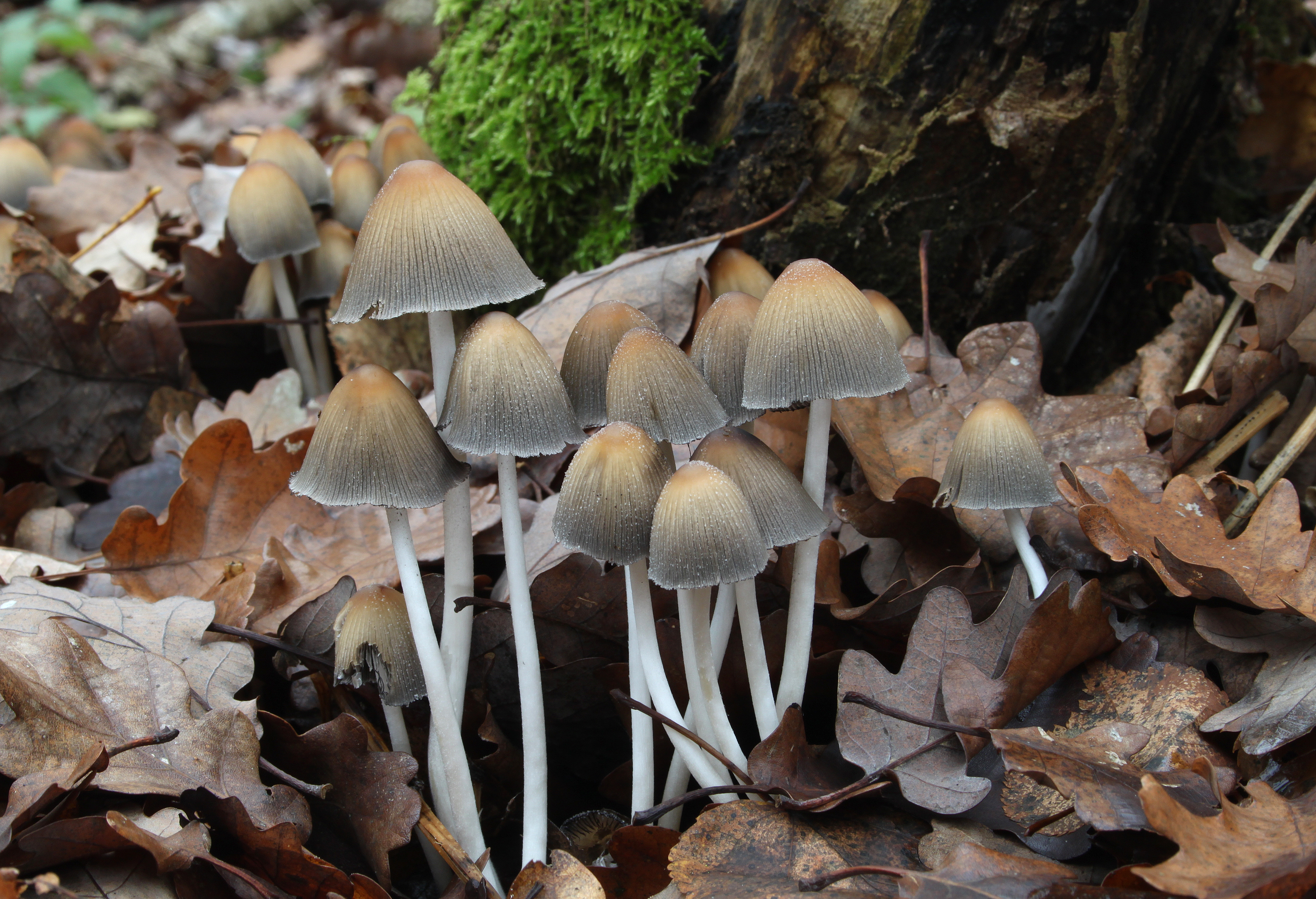 Mica Cap, Shiny Cap or Glistening Inky Cap, Coprinellus micaceus, Family: Psathyrellaceae, Location: Germany, Erbach, Ringingen